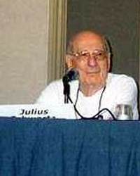 Julius Schwartz at Comic-Con International in 2002.